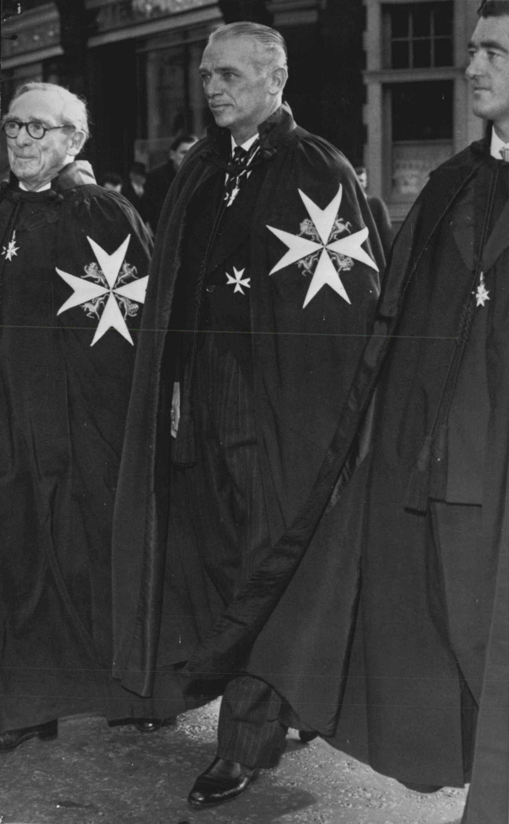 This is an image of American actor Douglas Fairbanks, Jr wearing the mantle and insignia of a Knight of Justice of the Most Venerable Order of the Hospital of St John of Jerusalem in 1958. The image comes from an Associated Press Wire Photo which bears the following caption: "(Oct. 19, 1958) DOUGLAS FAIRBANKS IN CHURCH PROCESSION—Actor Douglas Fairbanks, wearing robes of the Order of St. John, walks in procession to re-dedication service of Church of St. John of Jerusalem, Clerkenwell, London, Friday. The church, one of the British capital's most historic houses of worship, now is the grand prior church of the Order of St. John." There is no copyright notice on the image, so it is believed to be in the public domain in the United States of America.